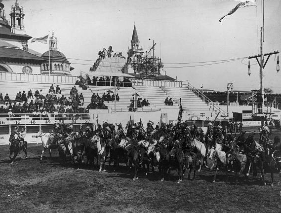 Indian Congress. Photograph shows large group of Native Americans mounted on horseback during a wild west show at the Pan-American Exhibition, Buffalo, N.Y., 1901